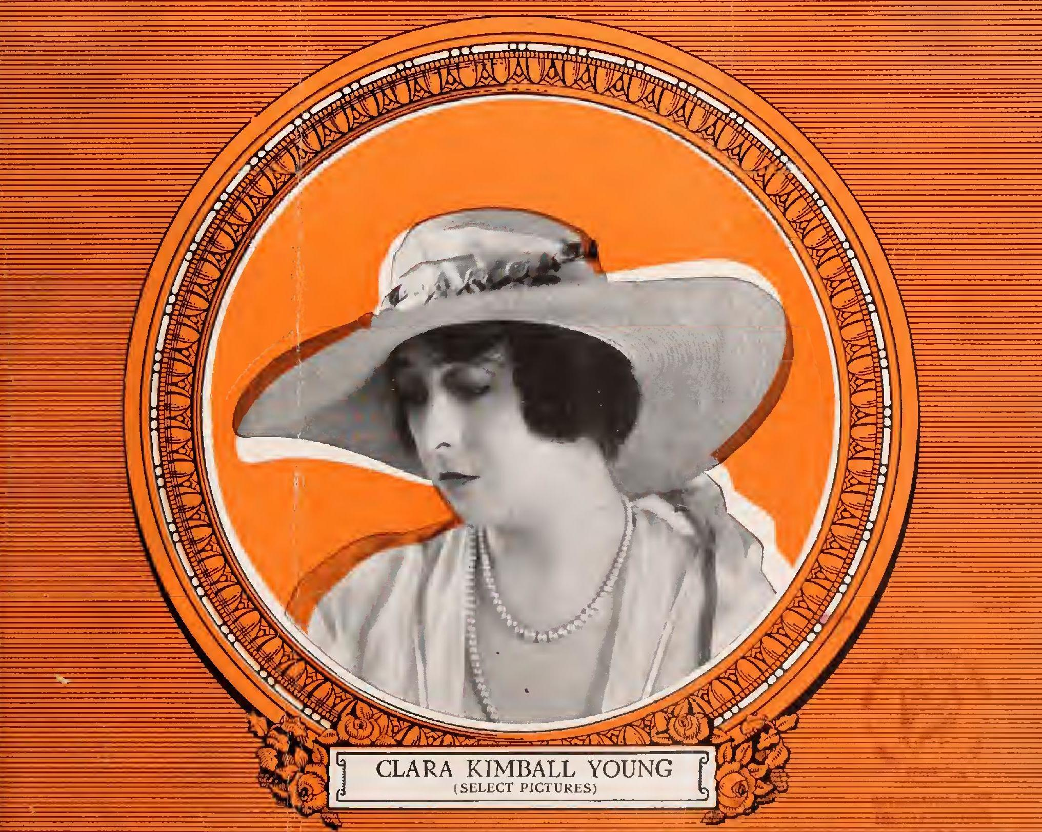 Exhibitors Herald, 1918